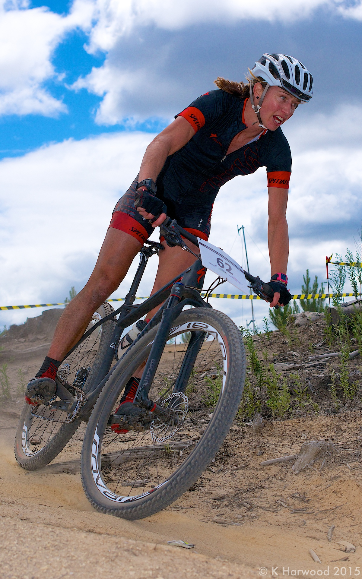 Karen Hanlen at the 2015 Mountain Bike Nationals Elite in Rotorua